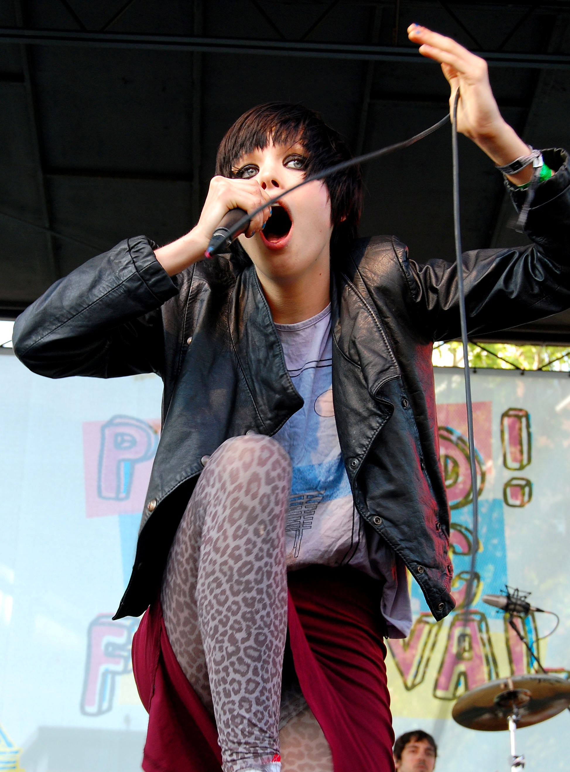 Alice Glass of Crystal Castles.